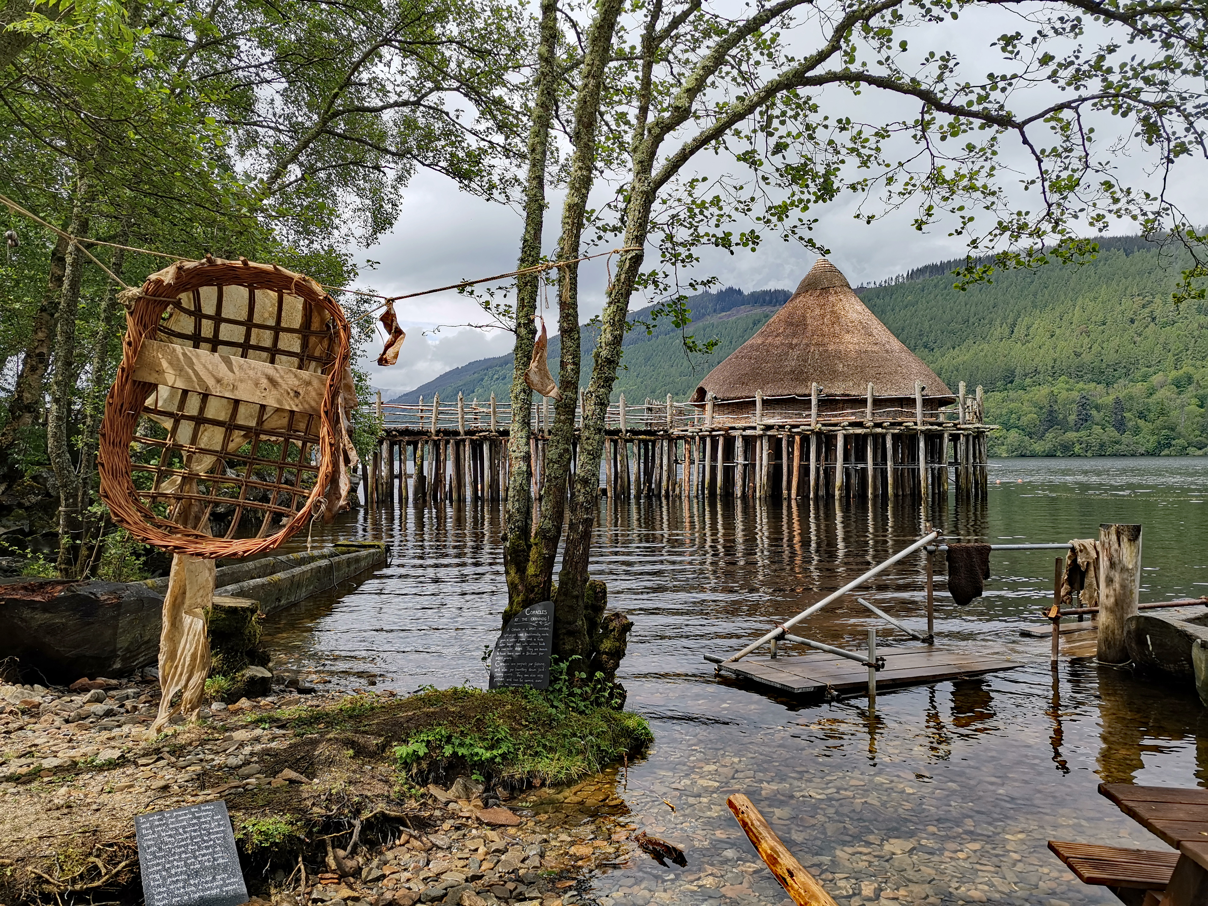 Crannog Centre on Loch Tay (Perth & Kinross, Scotland, UK)